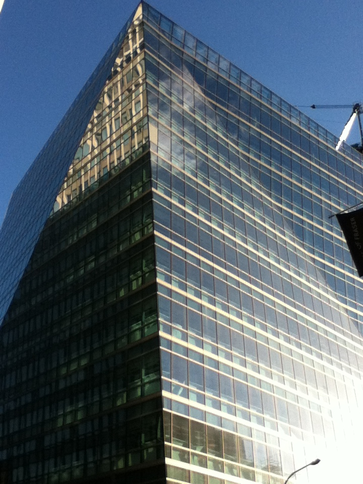 62 Buckingham Gate building, located on Buckingham Gate street in Westminster, London, UK. The building was completed in 2013.